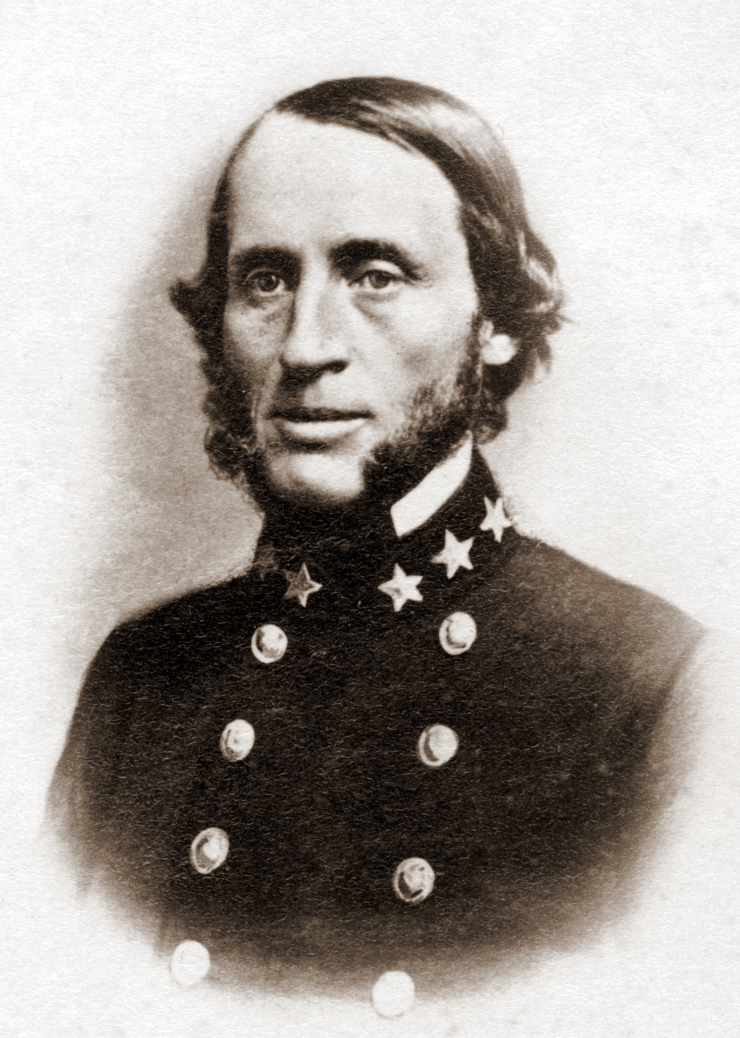 Thomas Lanier Clingman, Duke University Libraries, Digital Collections, William Emerson Strong Photograph Album.